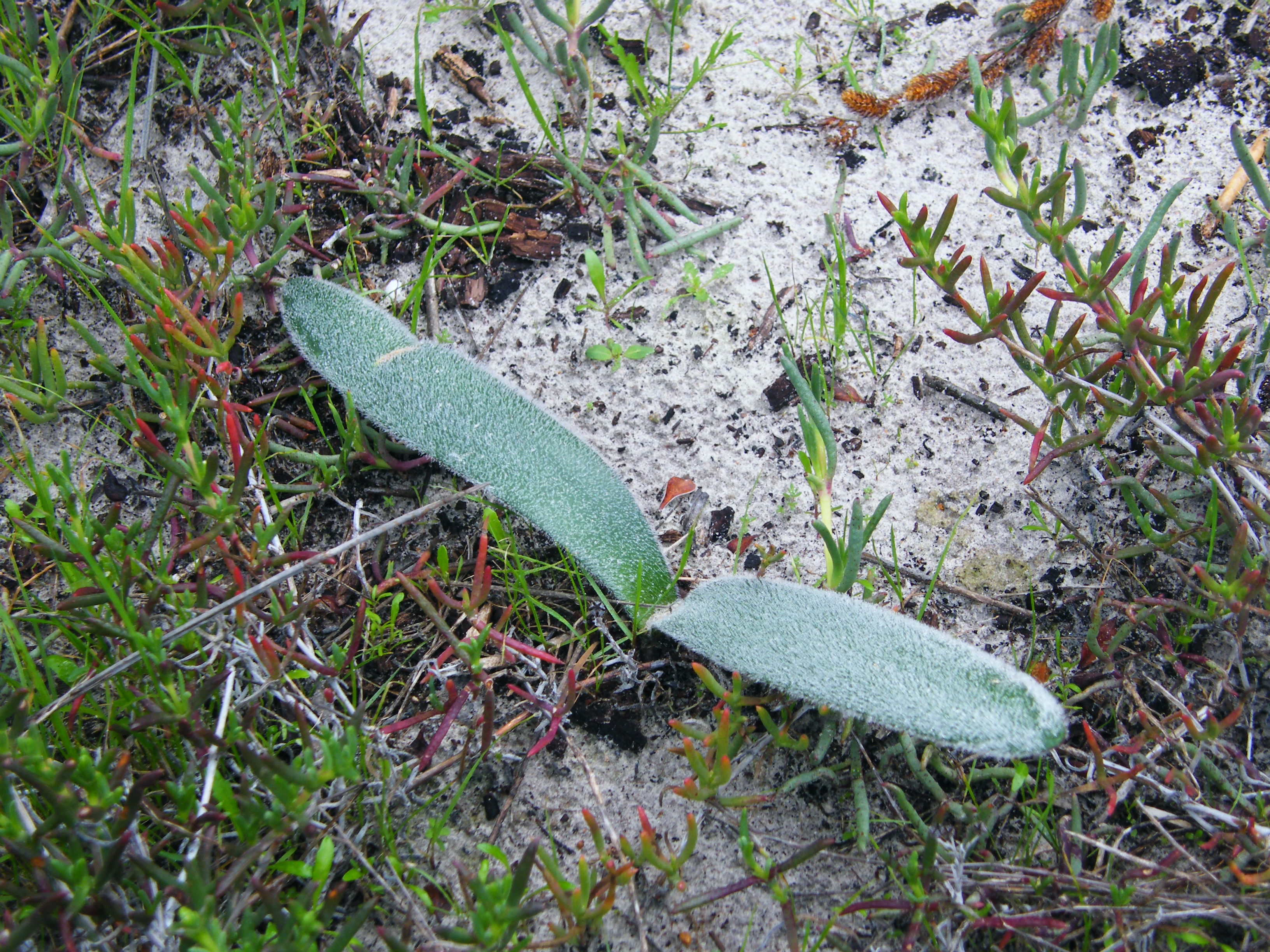 leaves